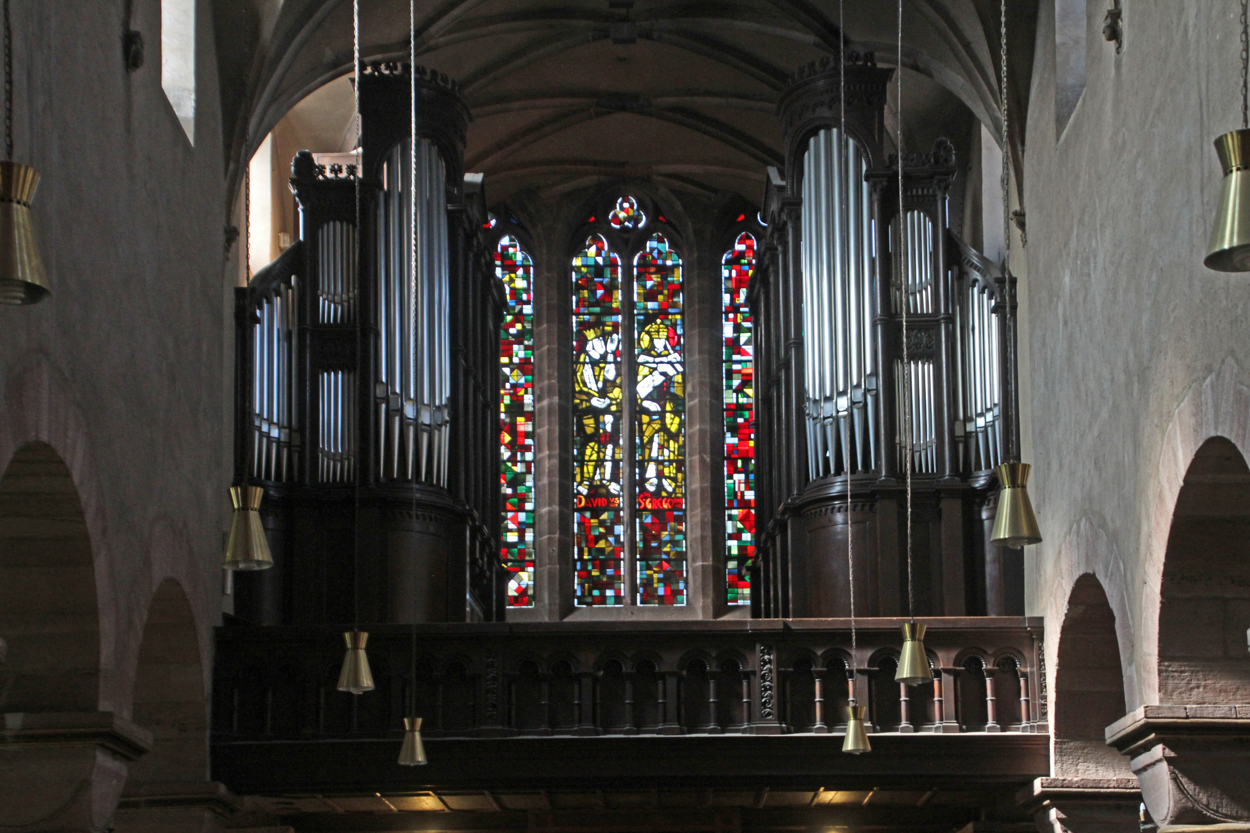 Church of Saint George in Haguenau, interior decoration